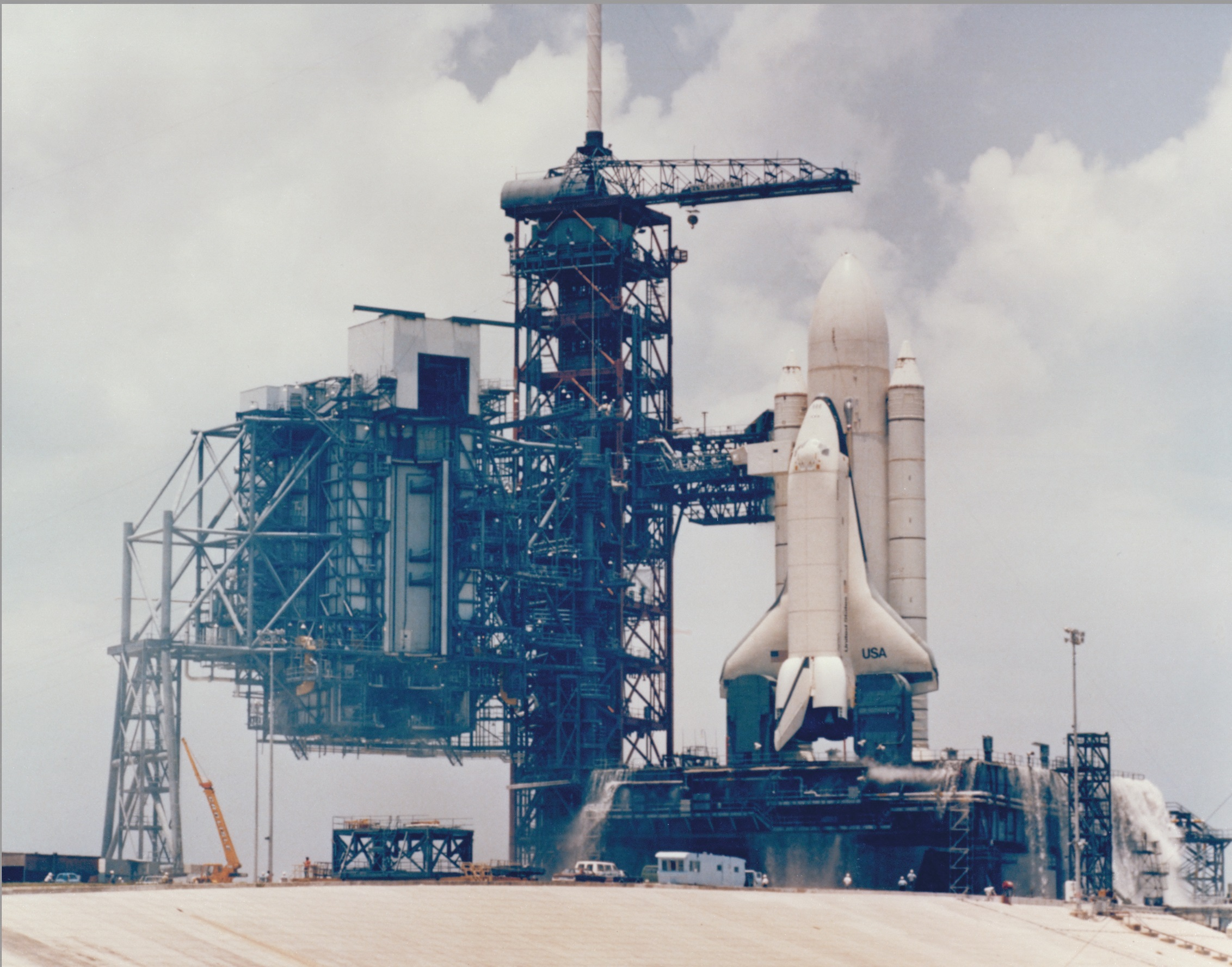 The prototype Space Shuttle Enterprise stands on Launch Pad 39A at Kennedy Space Center in 1979 during fit-checks of the entire shuttle stack during the test phase prior to the first shuttle launch in 1981.